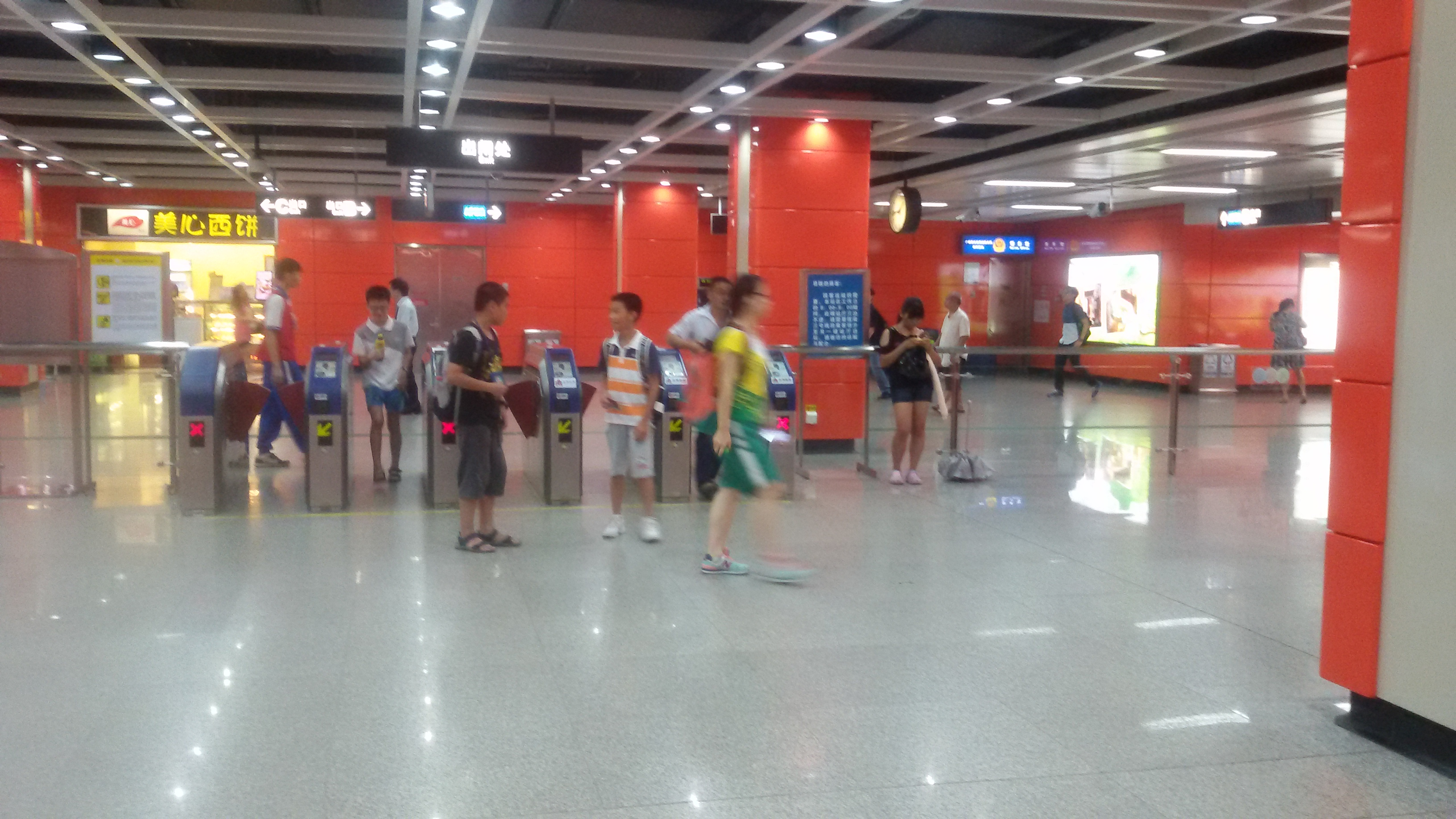 Station concourse for Linhexi Station in Line 3, Guangzhou Metro. 粵語: 林和西站嘅3號綫站廳